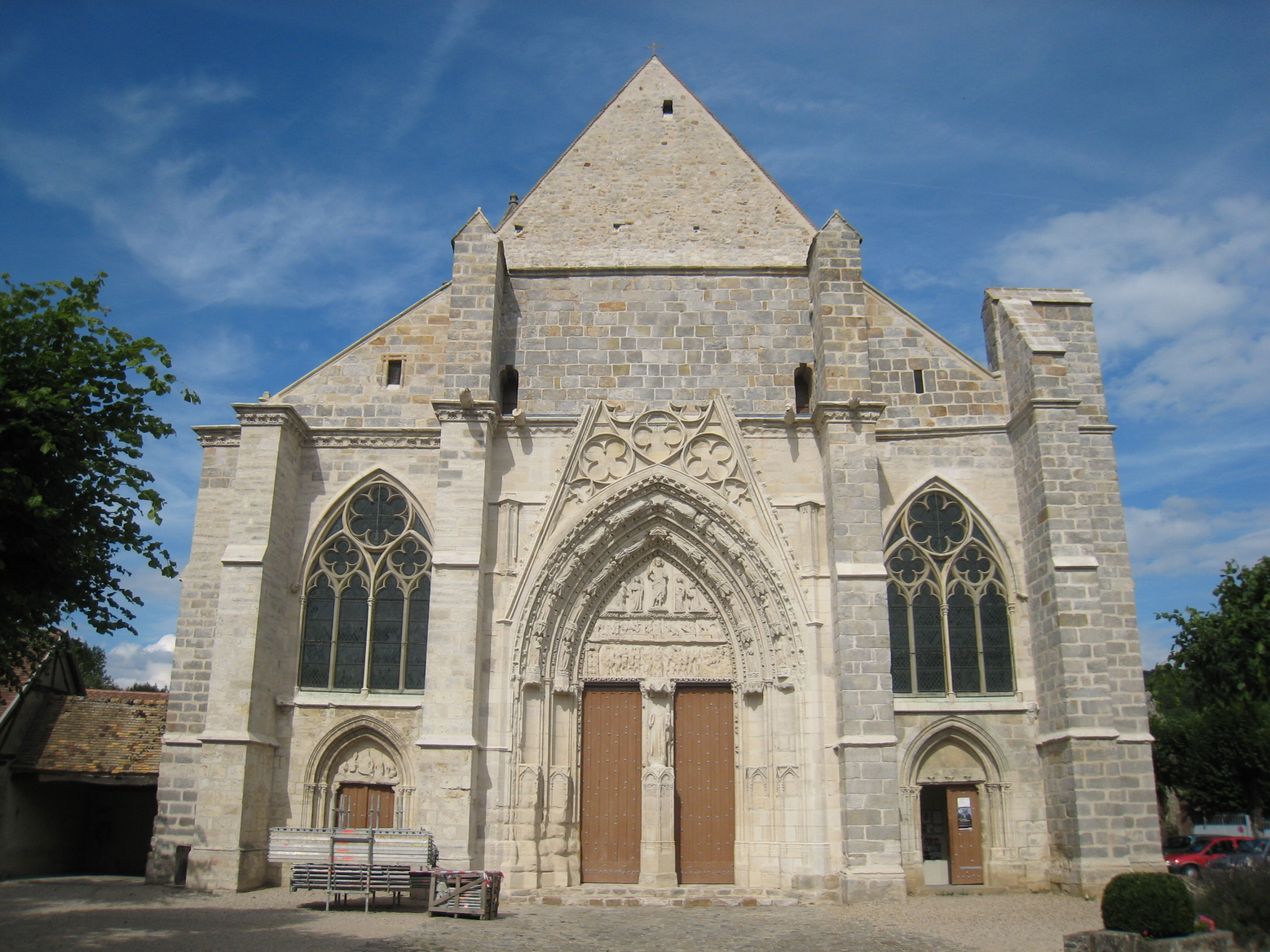 Gothic church of Saint-Sulpice-de-Favières (Essonne, France)